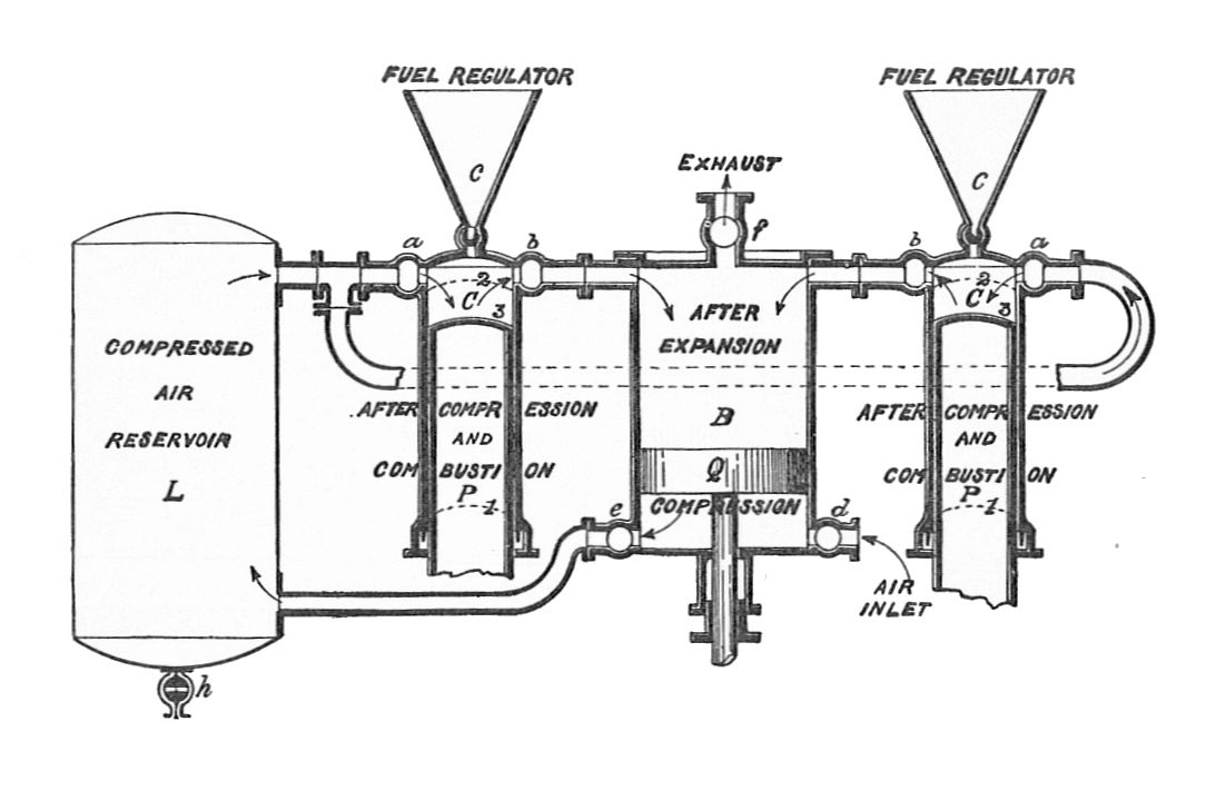 Early Diesel engine, with air-blast injection (Rankin Kennedy, Electrical Installations, Vol III, 1903).jpg